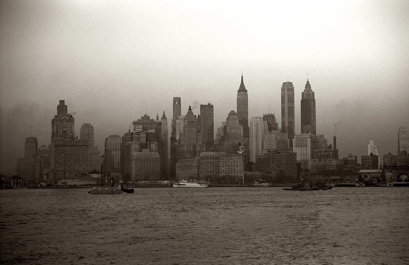 Lower Manhattan seen from the S.S. Coamo leaving New York